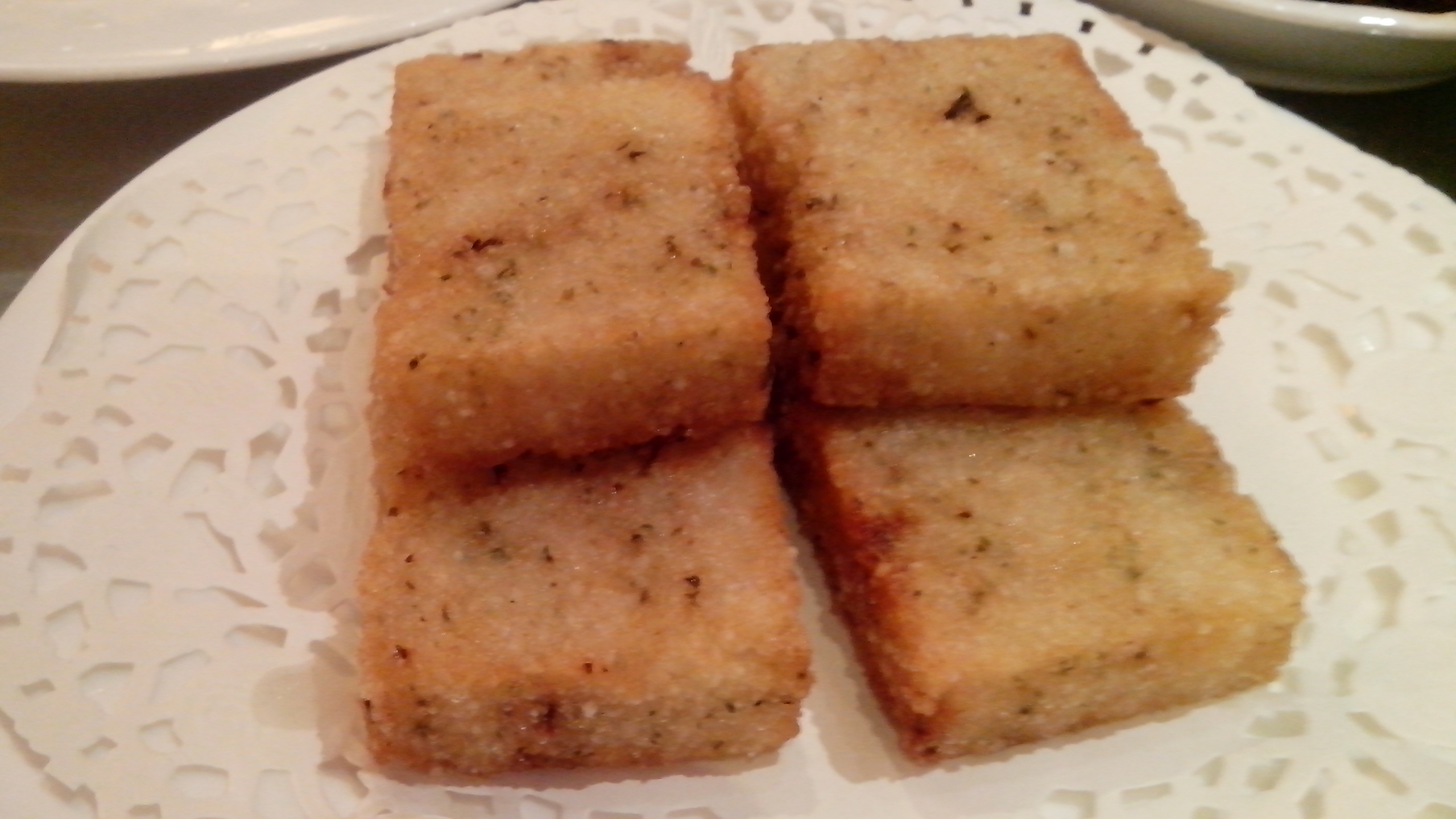 restaurant-made cifangao in shanghai